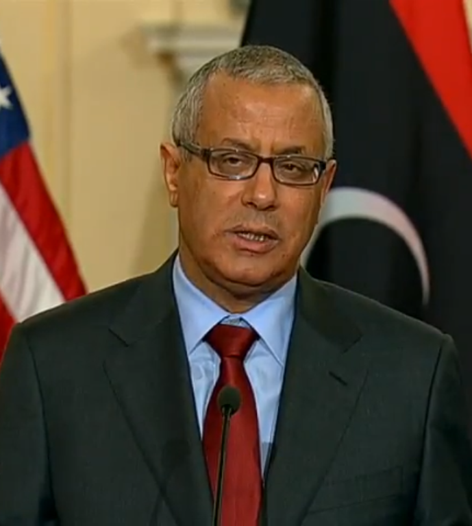 Ali Zeidan, Prime Minister of Libya delivering remarks to the press during a meeting at the US Department of State with Secretary of State John Kerry.